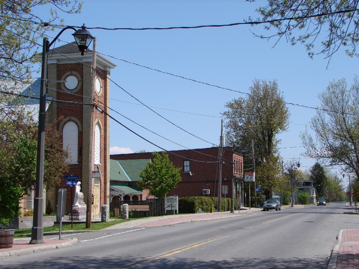 Cumberland village, part of City of Ottawa, Ontario, Canada